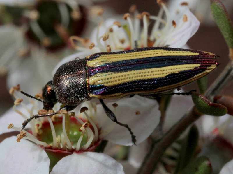 Castiarina vittata Ltle Desert